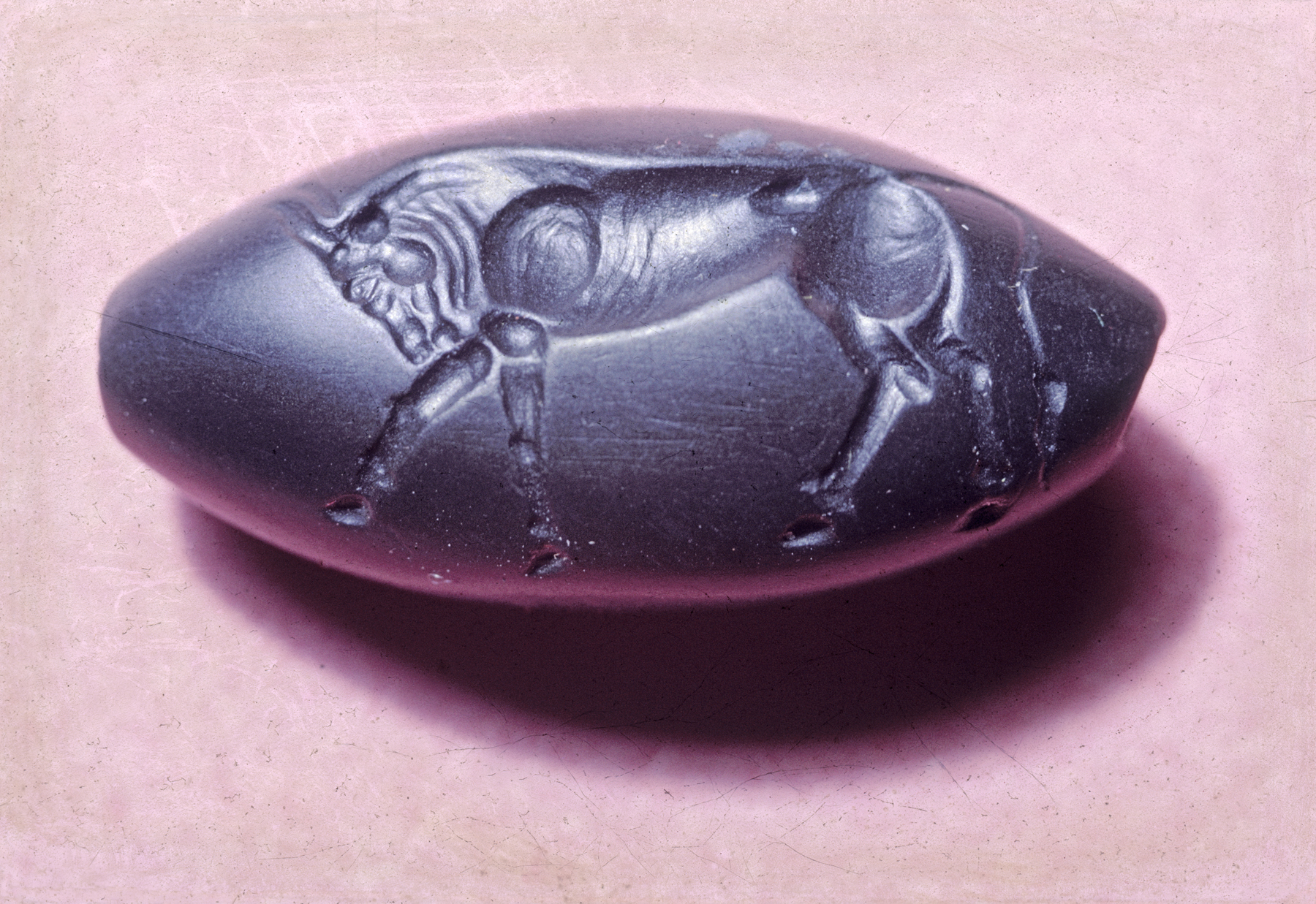 Carved sealstones were popular ornaments among Bronze Age Minoans and Mycenaeans and served as insignia of rank and social status. They were influenced by the elaborate traditions of stamp and cylinder seals developed in the Near East and Egypt. The frequent appearance of bulls on seals may be inspired by the many Minoan palace wall-paintings and reliefs featuring the animal.